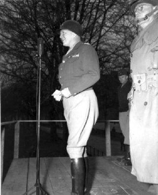 The Patton Museum website page this photograph appears on is about Patton's speeches to the Third Army in the first half of 1944. It gives no particulars about when and where this particular photograph was taken. However, looking at the book Historic Photos of General George Patton by Russ Rodgers, Turner Publishing Company, 2007, page 139, credit page 203, this clearly a side angle of the front view photograph presented there and credited to the Patton Museum, collection identifier P 8-18. From the caption in the book: "Patton delivers an address, quite possibly his famous speech, to men of the 2nd Infantry Division, at Armagh, Northern Ireland, April 1, 1944." In the right foreground of this photograph is Major General Walter M. Robertson, and in the right background is Brigadier General Hobart Gay.